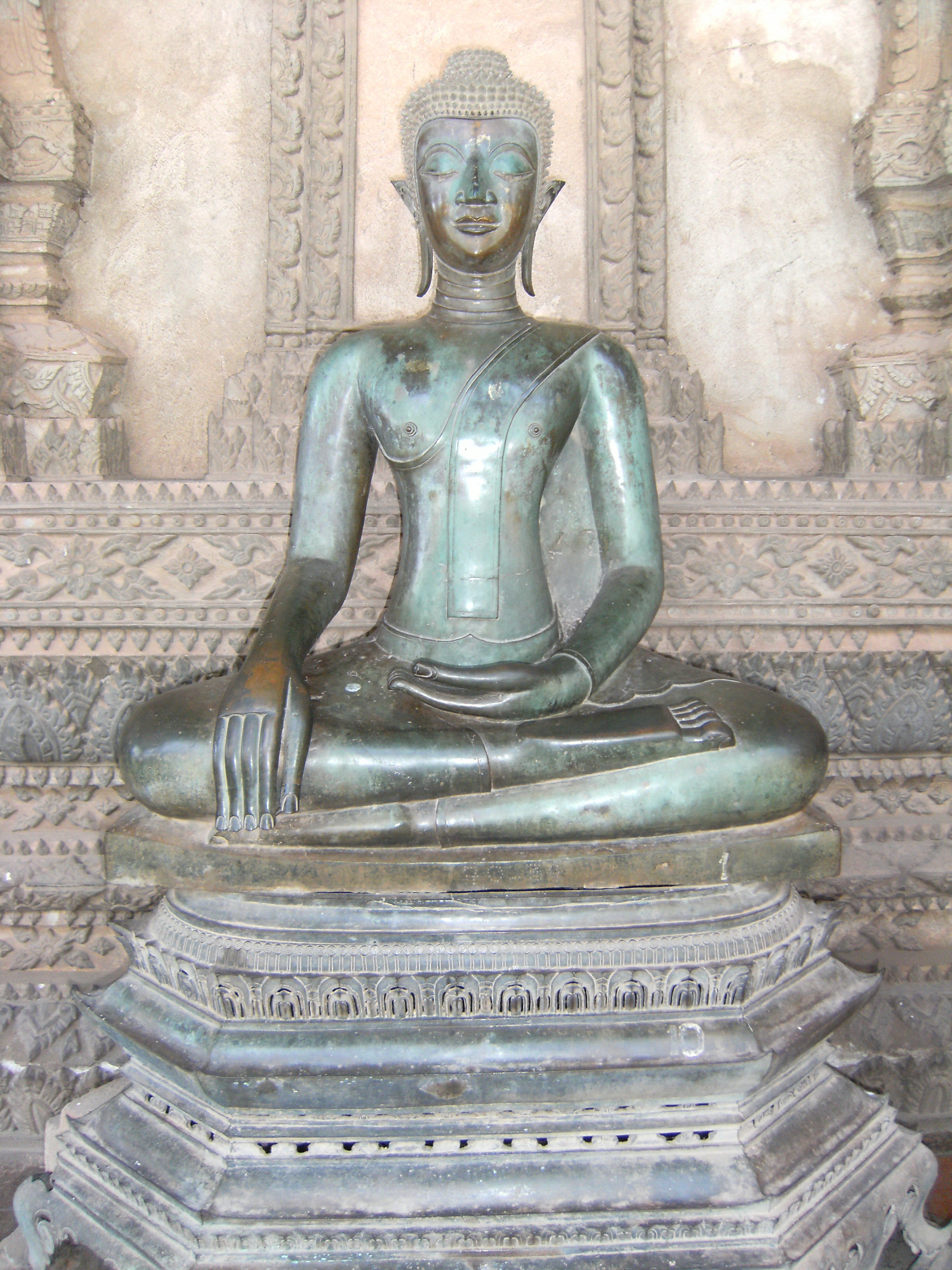 Buddha in Haw Phra Kaew.Location: Haw Phra Kaew, Vientiane, Laos.